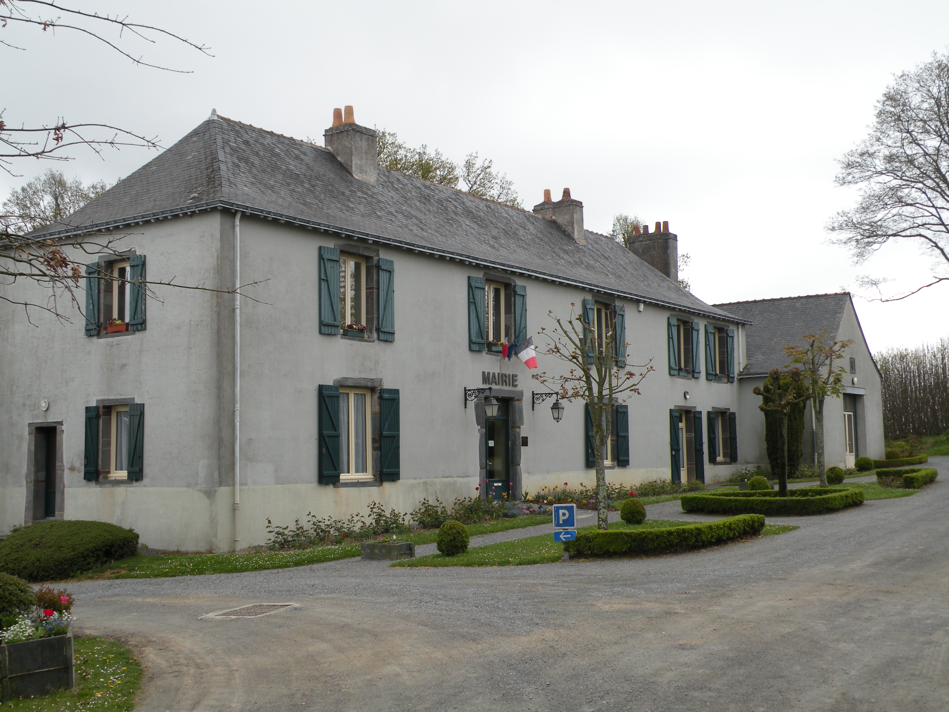 Town hall of Marsac-sur-Don